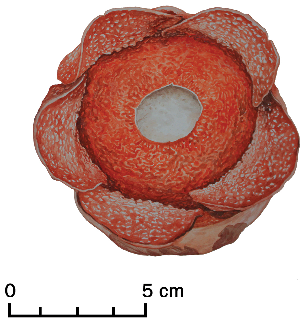 Colour illustration of Rafflesia consueloae Galindon, Ong & Fernando based on the holotype, Fernando & Galindon 3373 (PUH)